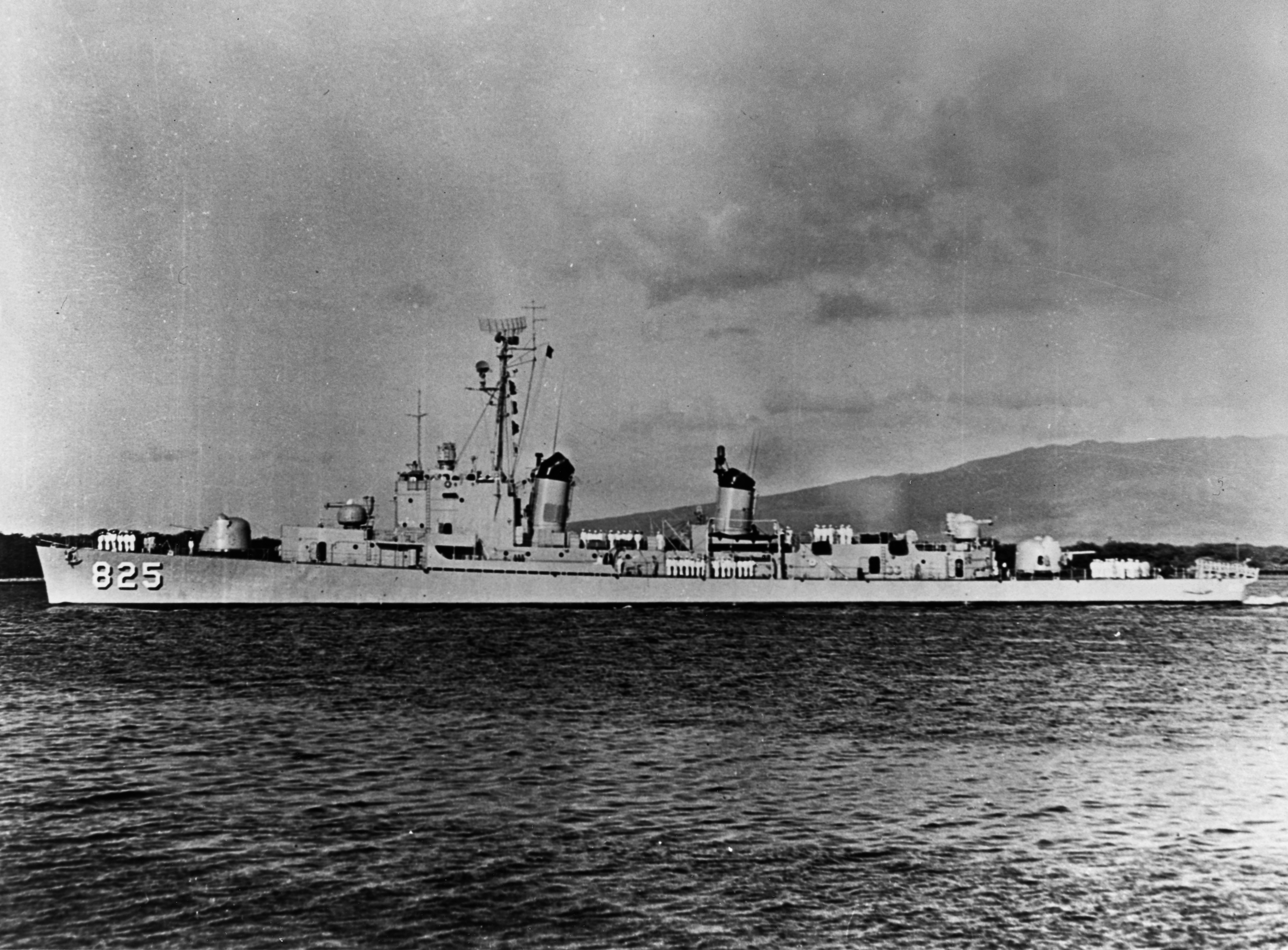 The U.S. Navy Gearing-class destroyer USS Carpenter (DDE-825) underway, circa in the late 1950s. Carpenter was commissioned in 1949 as a specialised ASW-destroyer, armed with only 7.6 cm/L50 guns and RUR-4 "Weapon Alpha" anti-submarine rockets. Also, the bridge was built much higher compared to the standard Gearing-class design. Later, as shown in this photo, Carpenter received 7,6 cm/L70 turrets.